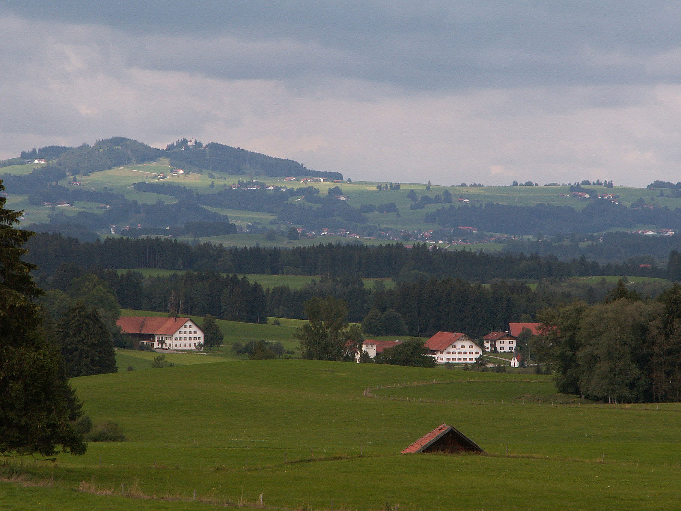 Auerbergland von Osten